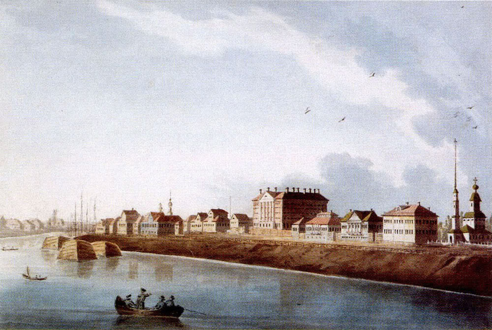 «Valerian Galyamin. View of the embankment in Arkhangelsk, 1826.». This picture was made by russian painter Valerian Galyanin in 1826 year